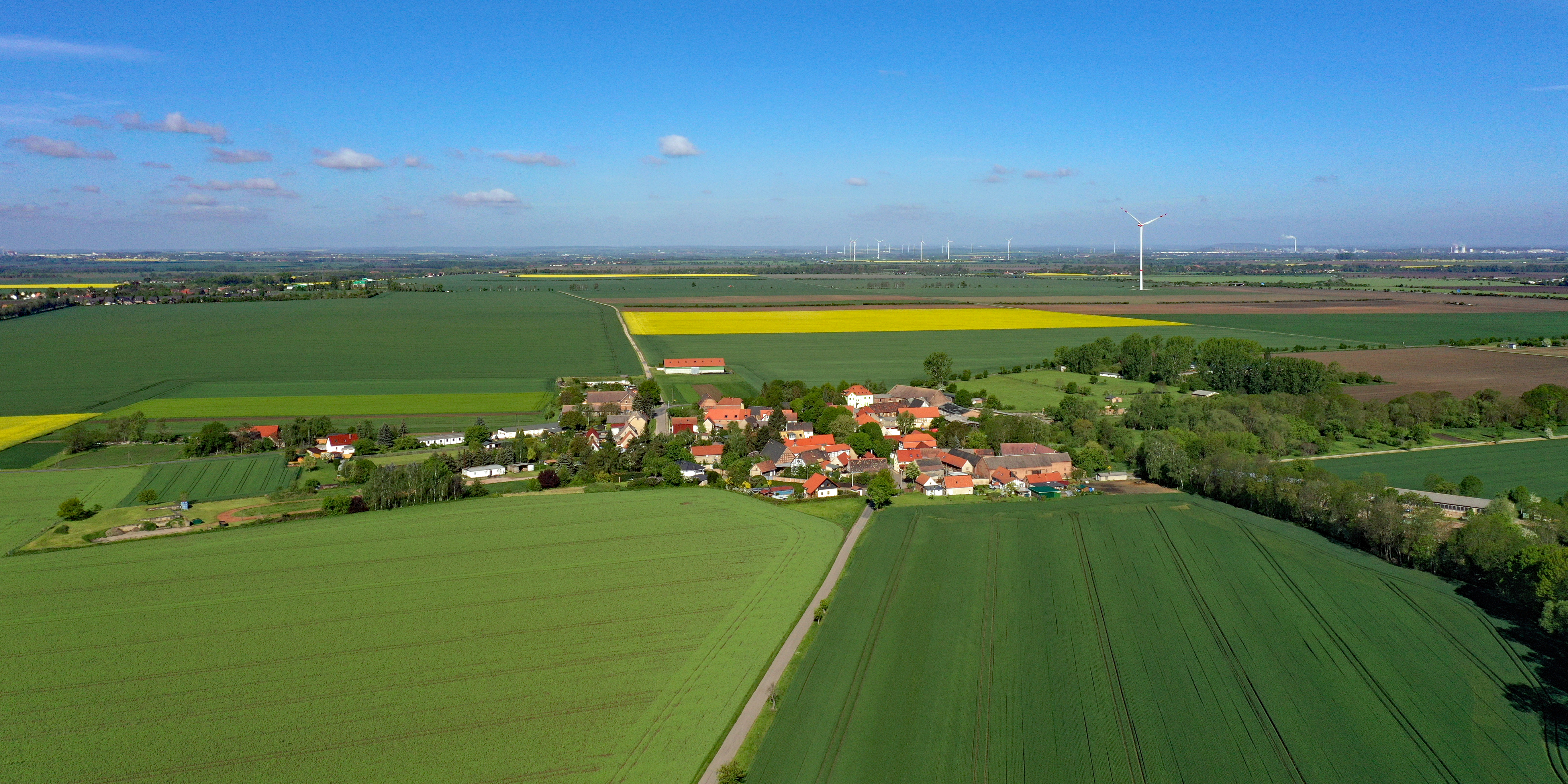 Kaja (Lützen, Saxony-Anhalt, Germany)